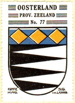 Coat of arms of Oosterland (Netherlands)